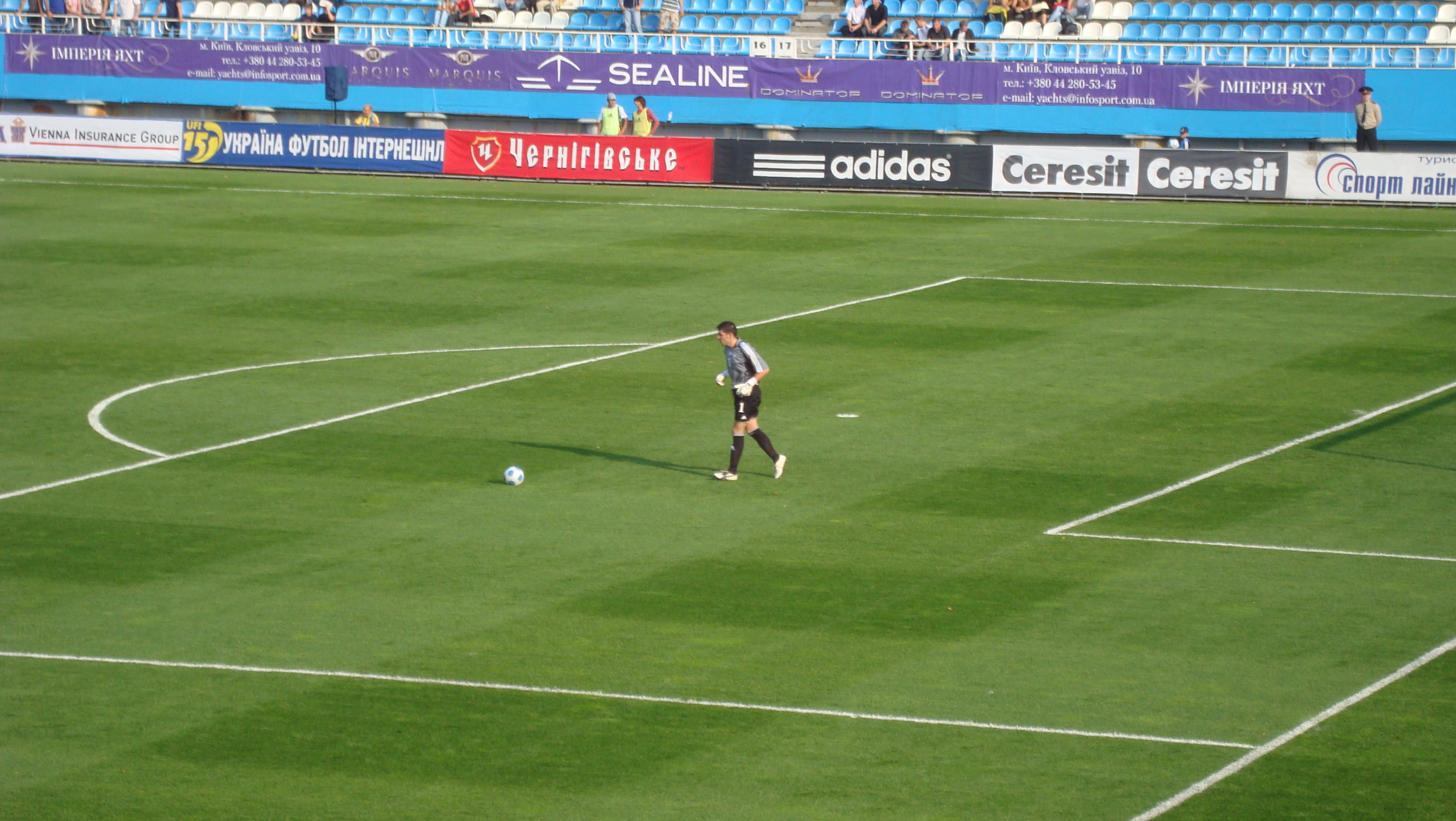 Andorran goalkeeper Josep Antonio Gómes #1 controls the ball during the World Cup Group 6 qualifying soccer match between Ukraine vs Andorra at the Lobanovsky Dynamo Stadium in Kiev, Ukraine, Saturday Sept. 5, 2009.